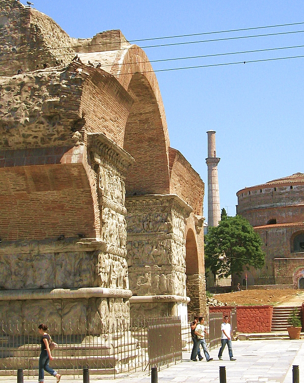 The Arch of Galerius in Thessaloniki, Greece.